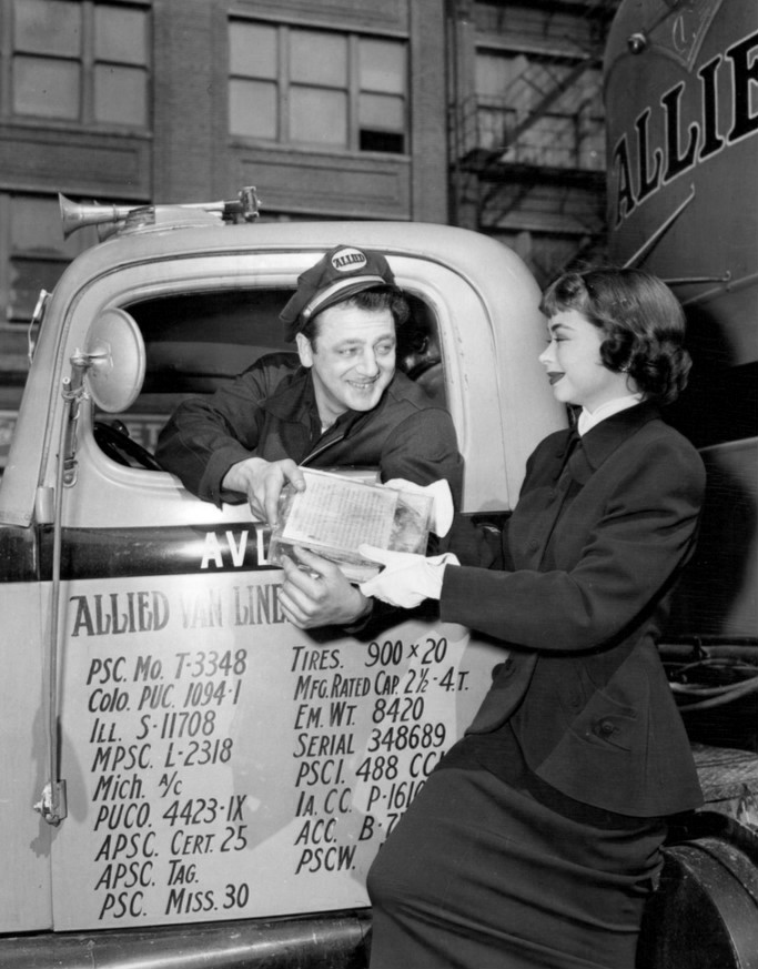 Photo of actress Buff Cobb as part of a stunt for the radio program Truth or Consequences.